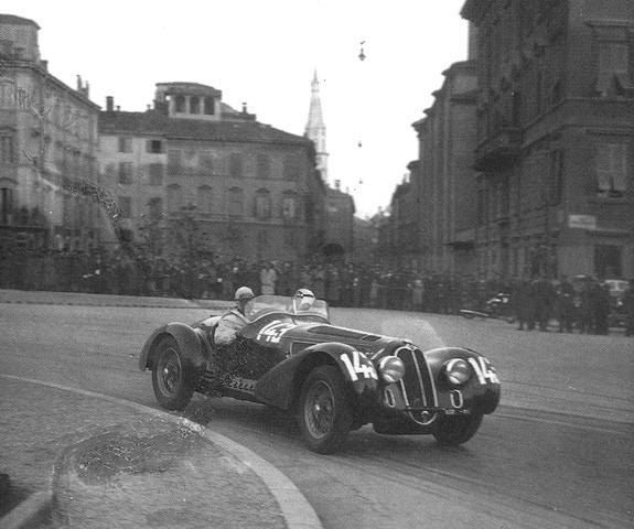 Entry #143 and WINNER of Mille Miglia in Italia on 3 April 1938 was Clemente Biondetti and co-driver Aldo Stefani in this 1938 Alfa Romeo 8C 2900 B Mille Miglia 412.031 (as of 2019 in the Simeone Museum, Philadelpia).[1]